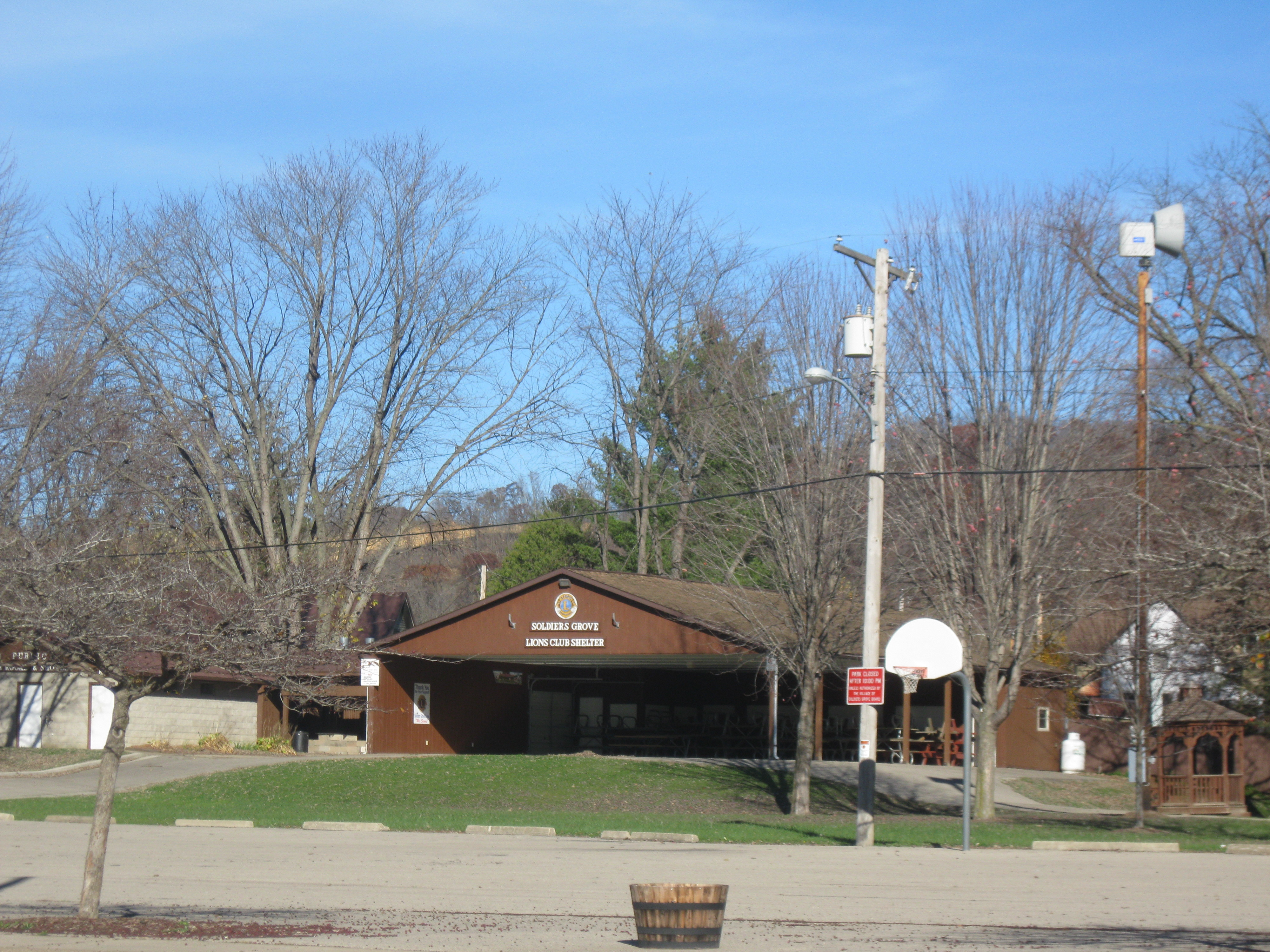 Lions Club Shelter in a public park in Soldiers Grove, Wisconsin.